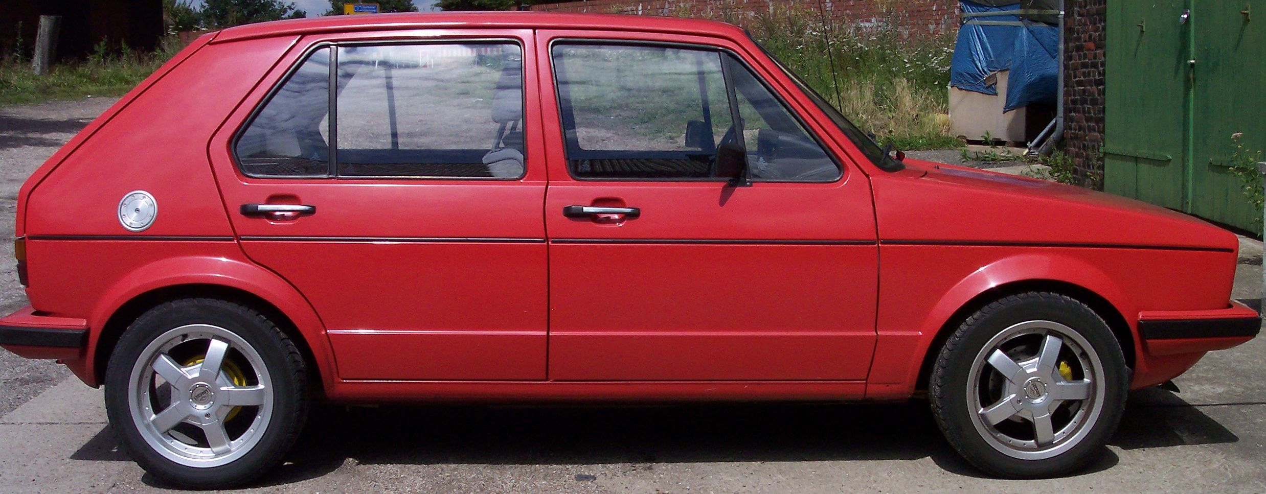 Volkswagen Golf I 4 door red